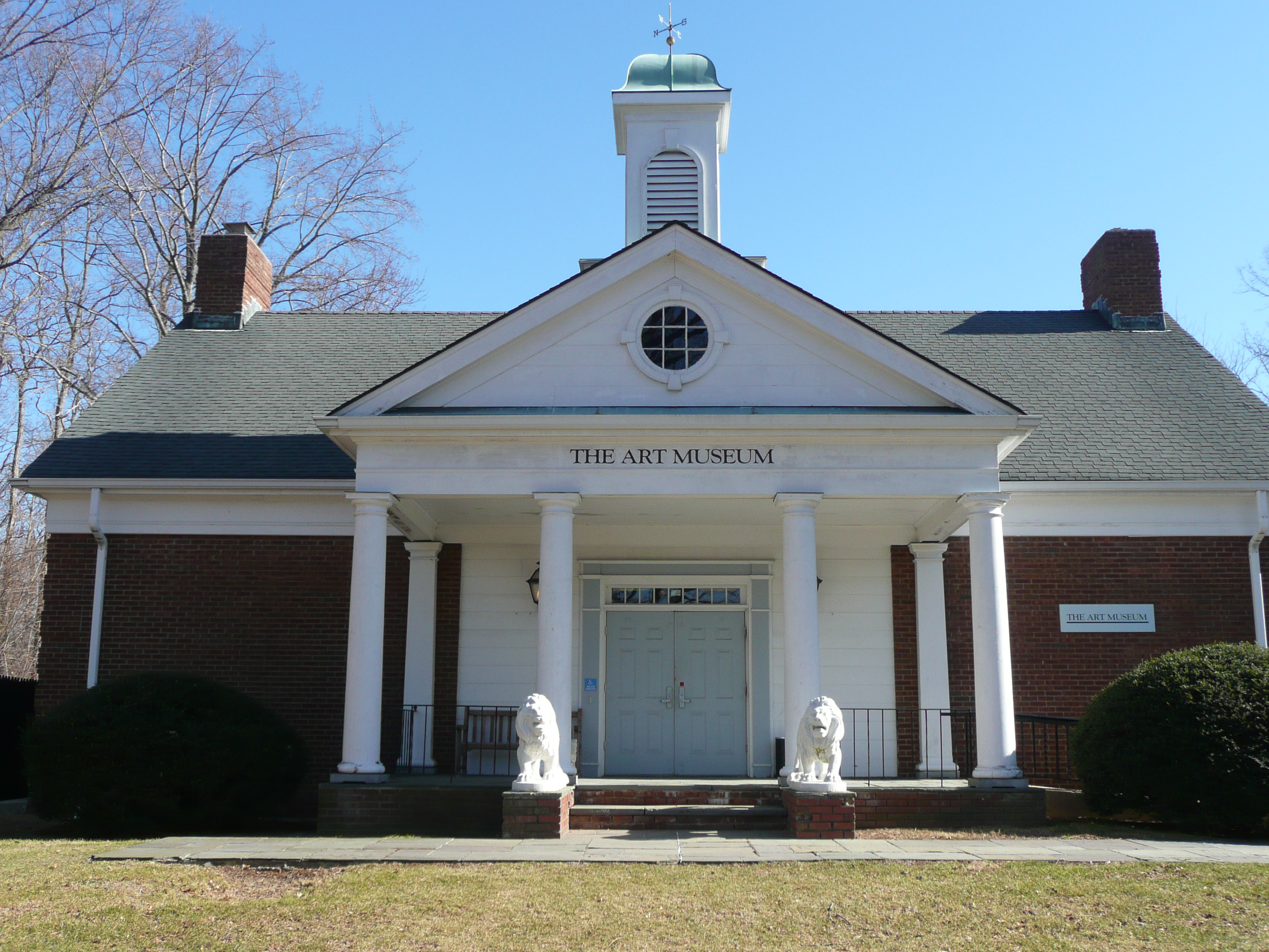 Art Museum at The Long Island Museum